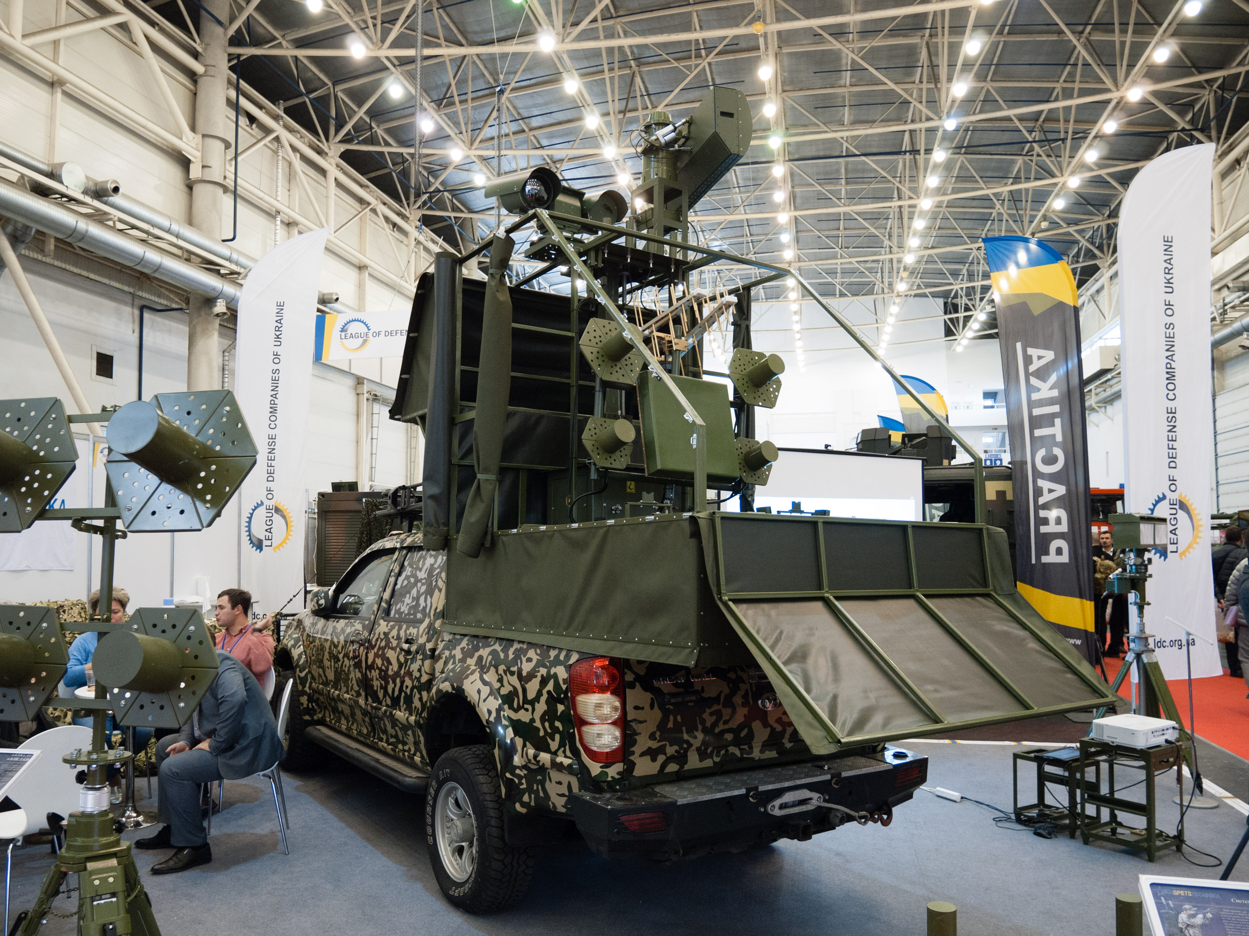 Polonez counter-UAV system by Ukrspetstechnika (Ukraine) at 'Zbroya ta Bezpeka' military fair, Kyiv, Ukraine, 2018